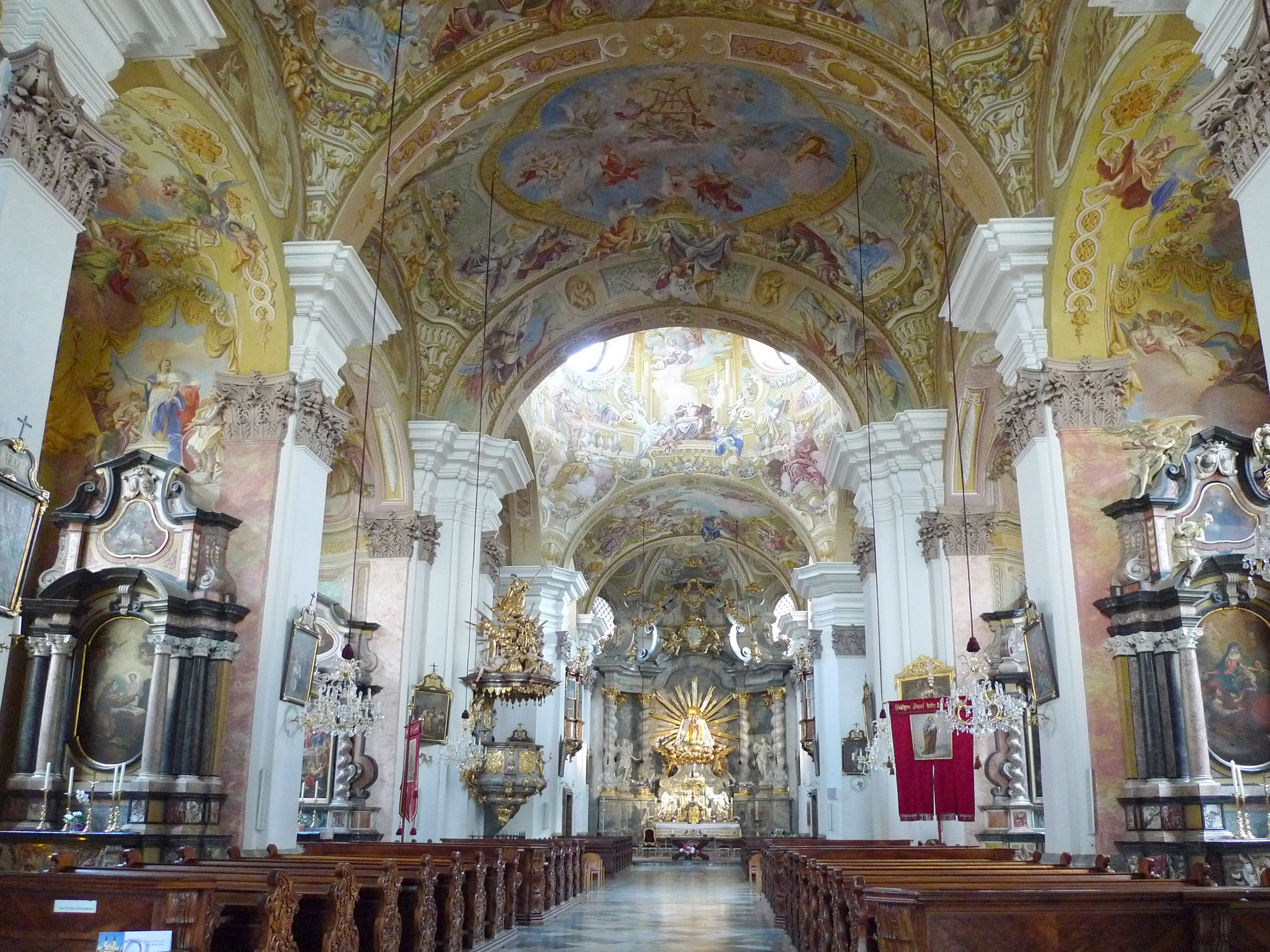 Innenraum